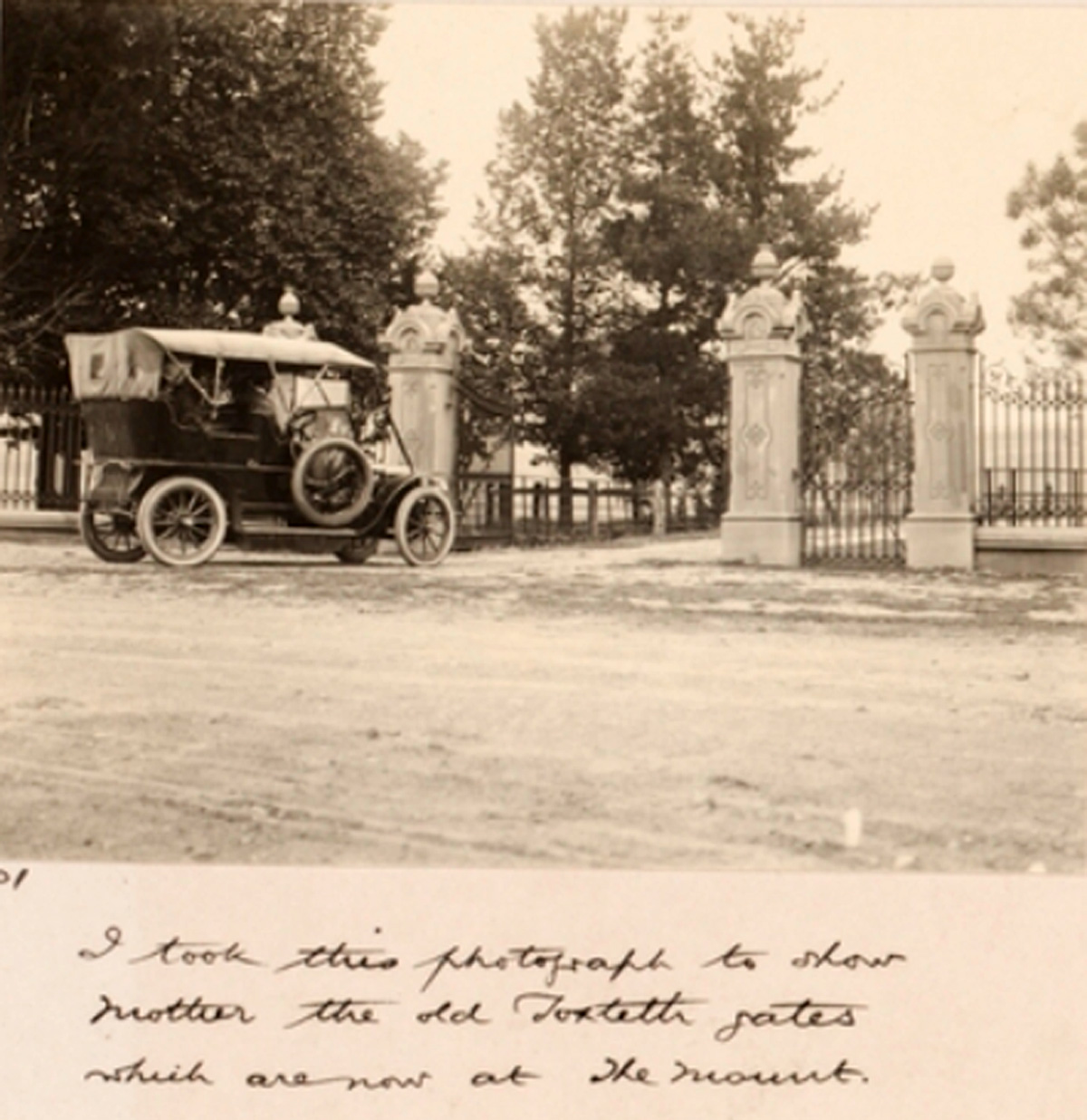 Gates at Abercrombie House, Bathurst, New South Wales, 1909